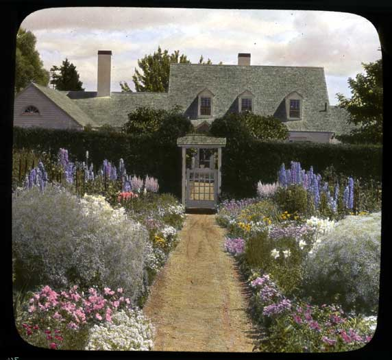 Creator: McCormick, Mildred Day Landscape Architect: Smith, Ann Leighton Farrand, Beatrix Jones 1872-1959 Type: Projected media Date: 1930 Topic: Summer Garden borders Walkways Gates Hedges Houses Local number: ME048001 Physical description: 1 slide: glass lantern, col.; 3 x 5 in Notes: Mildred McCormick was Sargent Collier's great aunt. Elizabeth Collier is Sargent Collier's wife. No 35 mm slide Place: Maine Bar Harbor Persistent URL: Repository:Archives of American Gardens View more collections from the Smithsonian Institution.